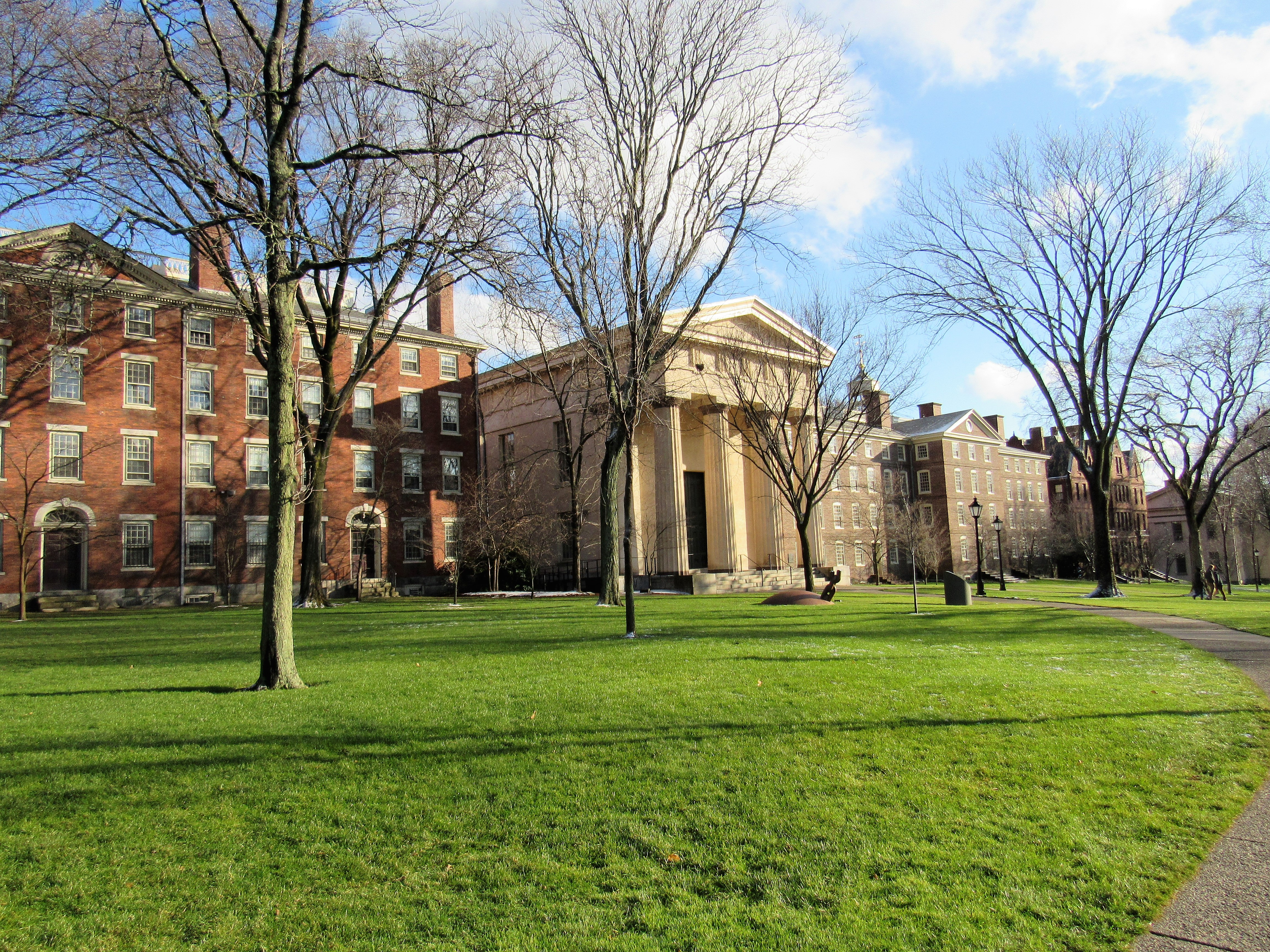 Quiet Green on the campus of Brown University in Providence, Rhode Island.